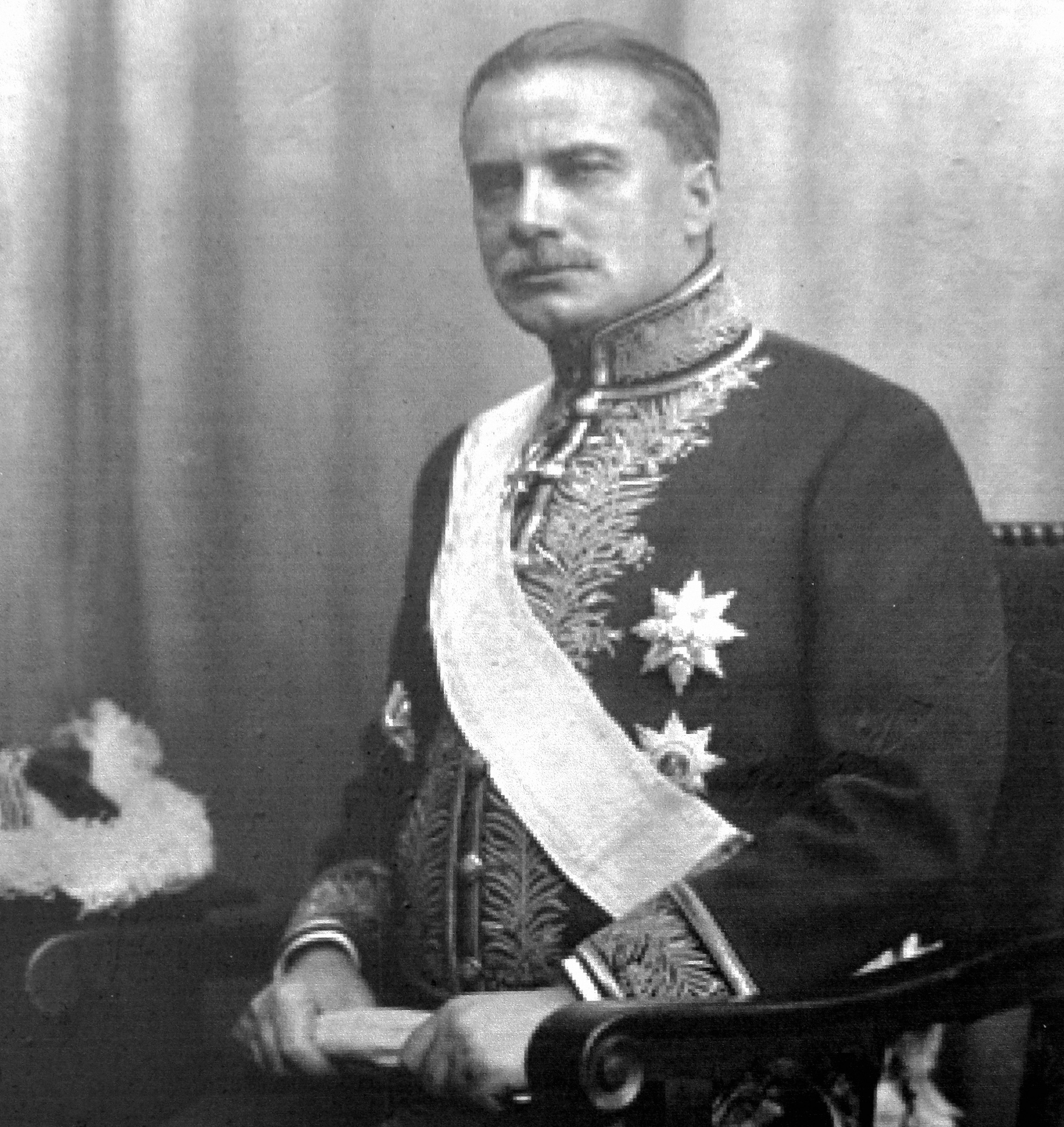 Mihailo Gavrilovic a Serbian historian and diplomat